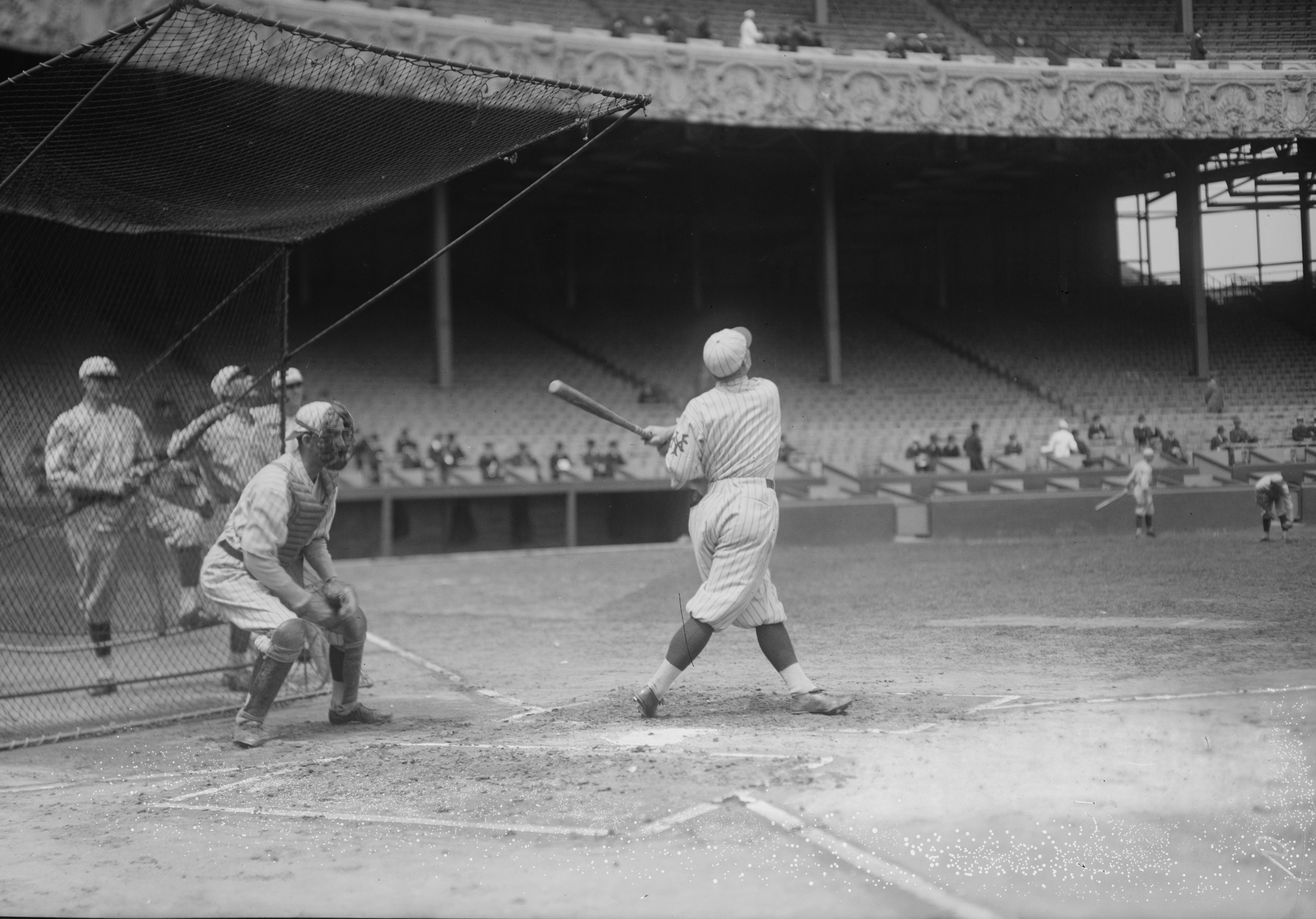 Title: Jigger Statz, New York NL (baseball) Abstract/medium: 1 negative : glass ; 5 x 7 in. or smaller.